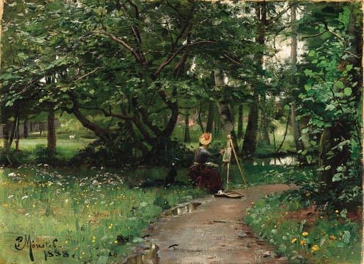 Painting off a Path Near a River. Signed and dated P Monsted./1888. Oil on canvas, 29.3 x 39.4 cm.